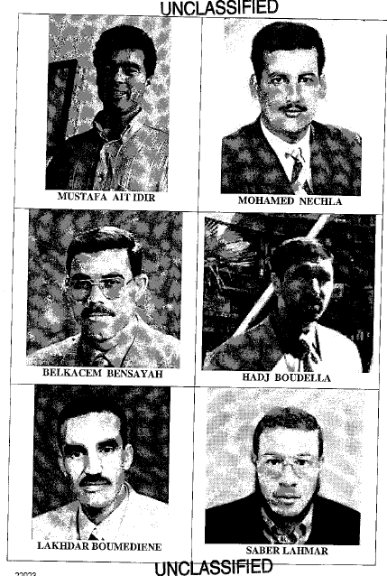 Six Bosnian men, called the "Algerian Six" -- currently held in extrajudicial detention ath the Guantanamo Bay Naval Base. From